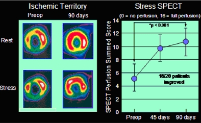 This image demonstrates the increase in myocardial perfusion after FGF-1 application through SPECT imaging